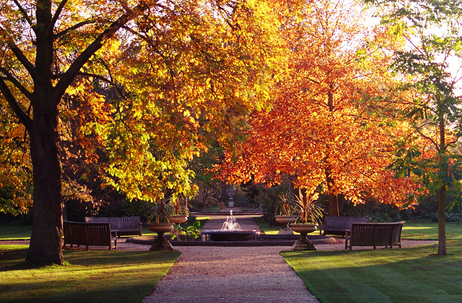 A photograph of Autumn foliage in Oxford's Botanic Garden.